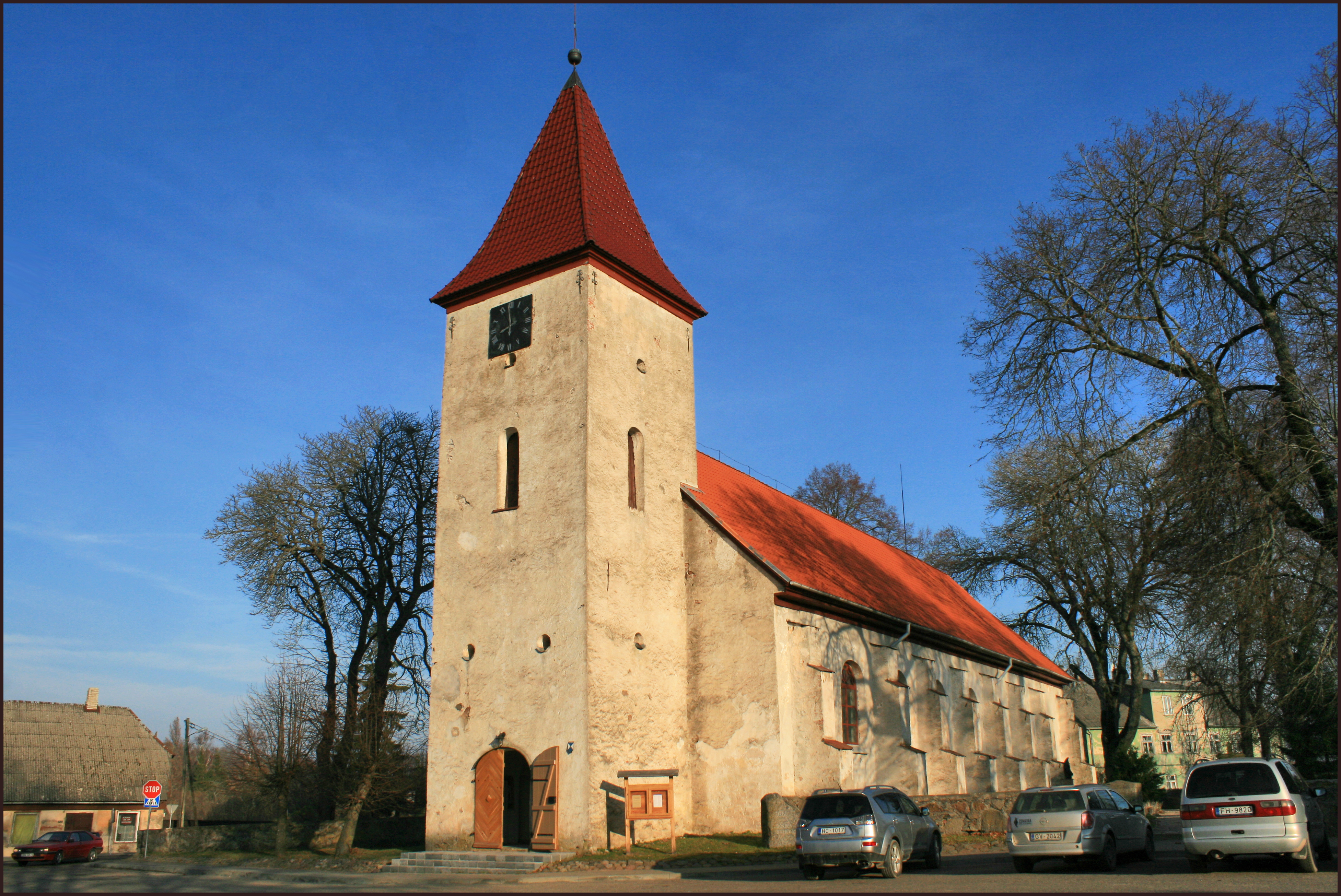 Durbe Evangelical Lutheran ChurchLatviešu: Durbes evaņģēliski luteriskā baznīca